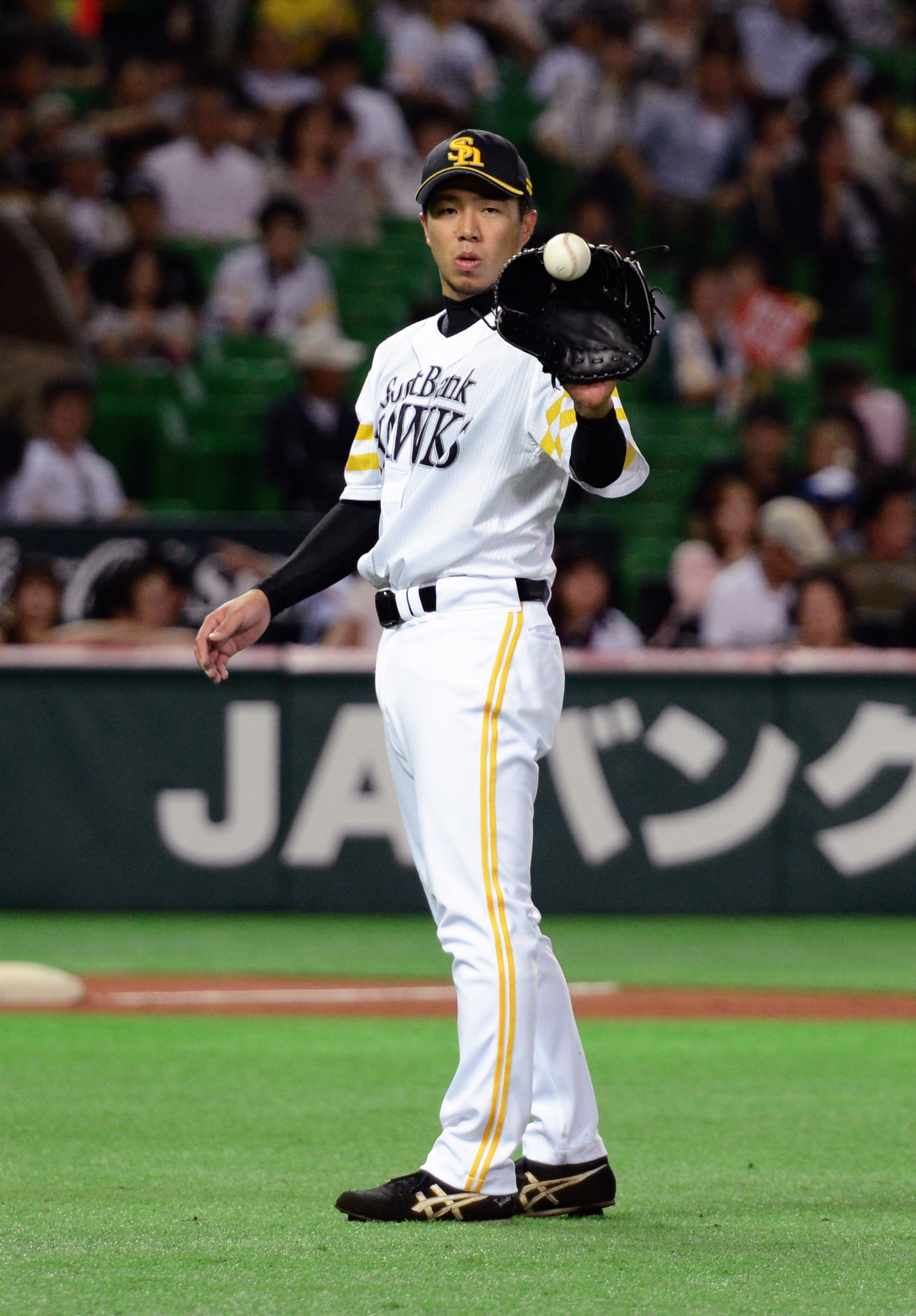 Yoshiaki Fujioka, pitcher of the Fukuoka SoftBank Hawks, at Fukuoka Dome